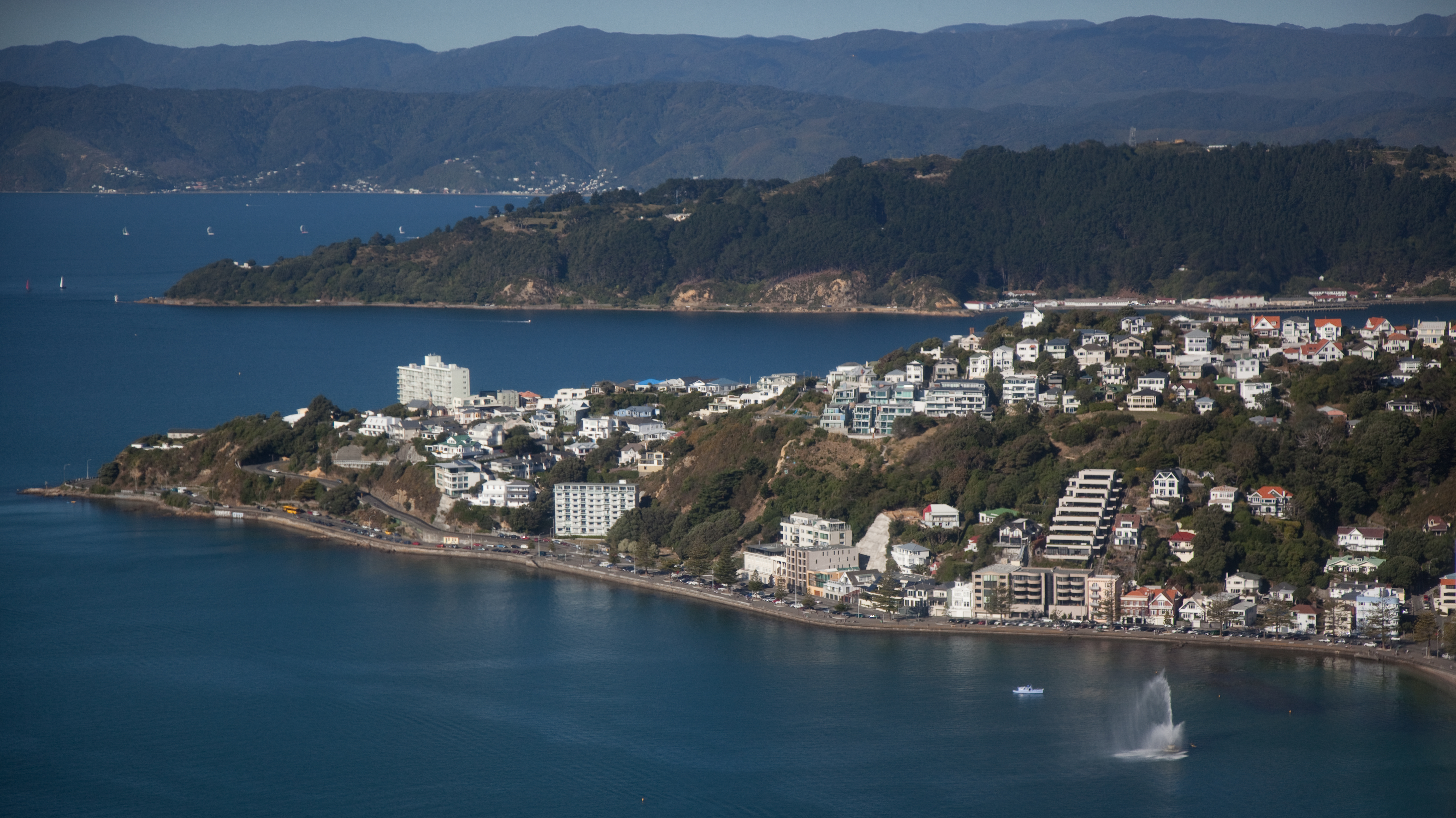 Roseneath, Oriental Bay, Point Jerningham and Point Halswell, Wellington New Zealand